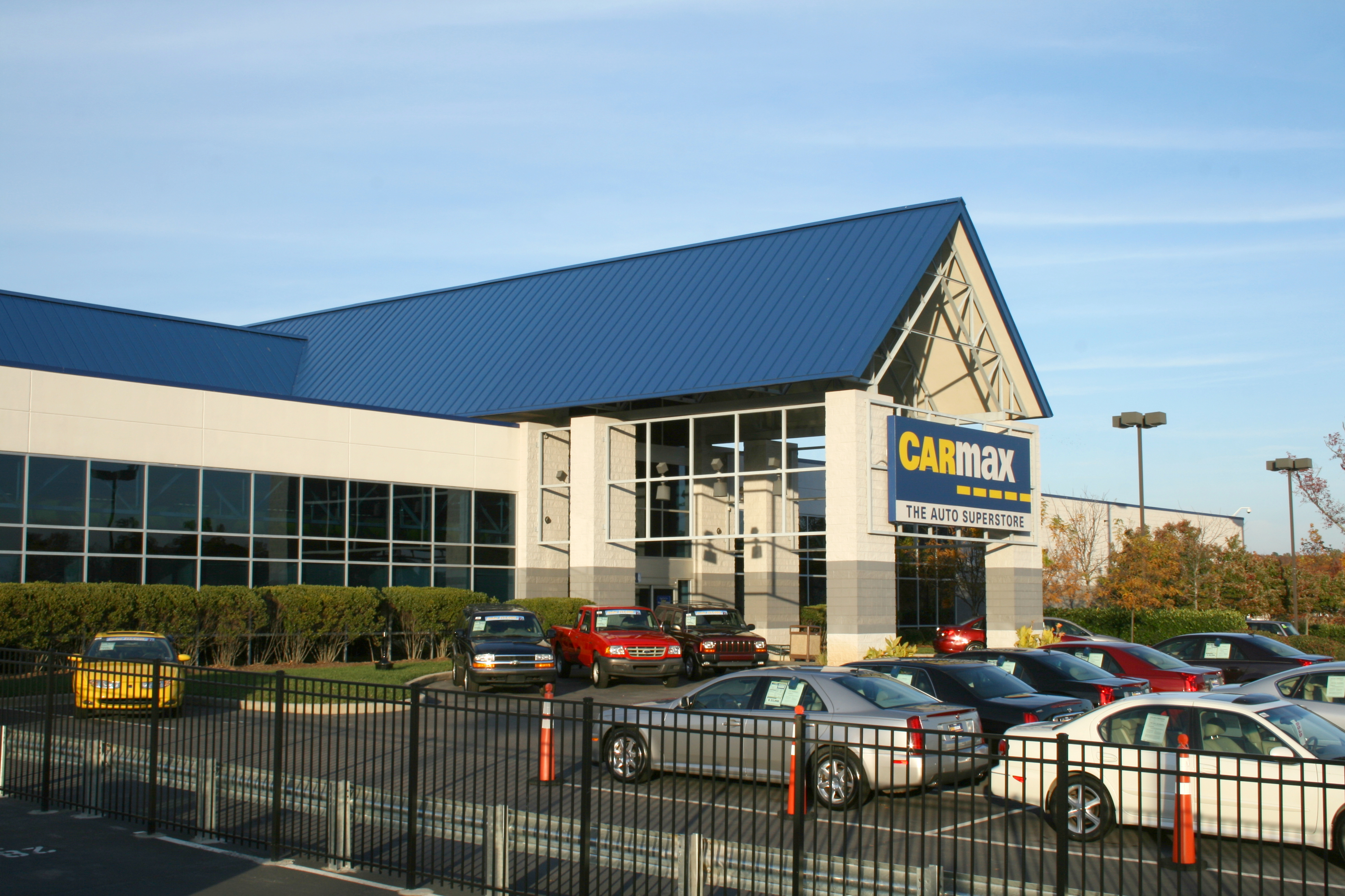 CarMax auto superstore at 8520 Glenwood Avenue in Raleigh, North Carolina.